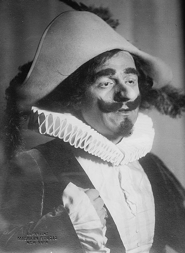 Italian opera singer Pasquale Amato (1878–1942) as Cyrano de Bergerac by Walter Damrosch